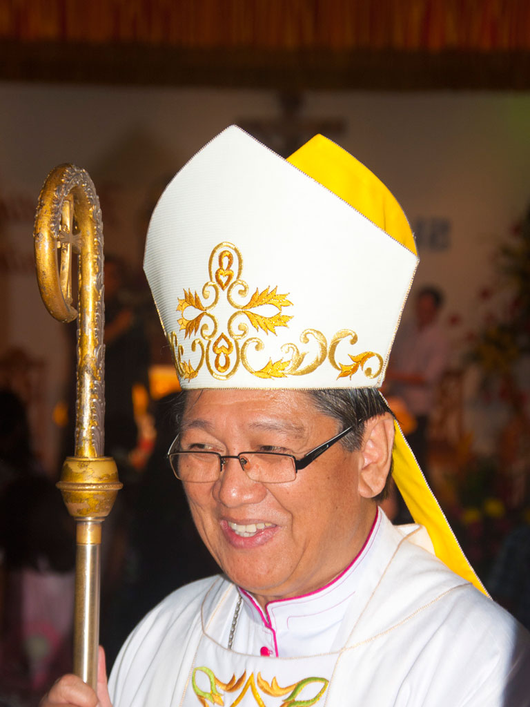 Bishop of Dumaguete: Julito Buhisan Cortes